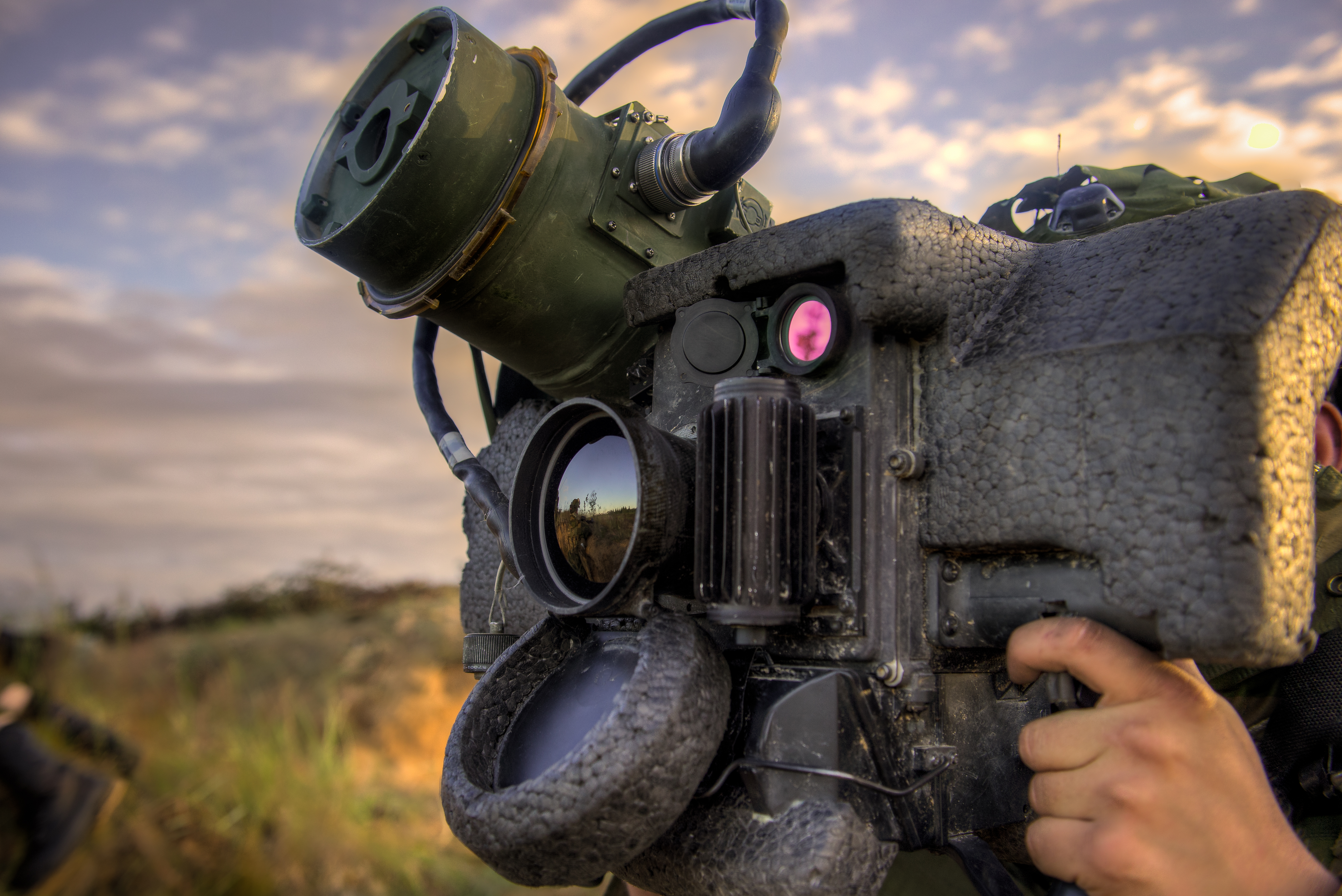 A Norwegian Soldier prepares to fire a FGM-148 Javelin at a vehicle during the final mission of the Saber Strike exercise 2014 at Adazi Training Area, Latvia on June 18, 2014. Saber Strike 2014 is a joint, multi-national military exercise scheduled for June 9- 20. The exercise spans multiple locations in Lithuania, Latvia and Estonia, and involves approximately 4,500 personnel from 10 countries. The exercise is designed to promote regional stability, strengthen international military partnerships, enhance multinational interoperability and prepare participants for worldwide contingency operations. (U.S. Army National Guard photo by: Staff Sgt. Brett Miller, 116 Public Affairs Detachment/ Released)